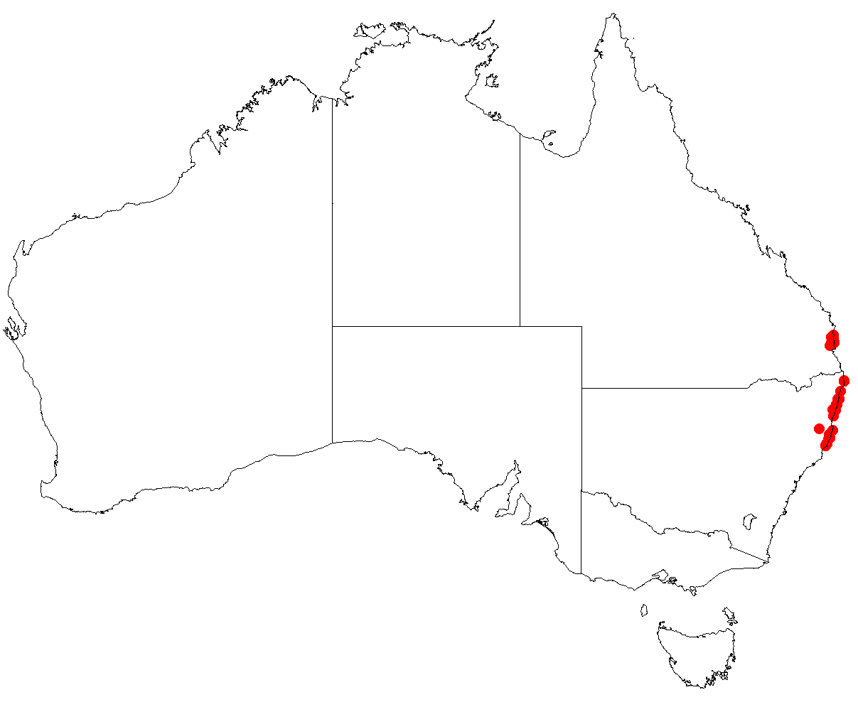 Allocasuarina thalassoscopica Occurrence data from AVH